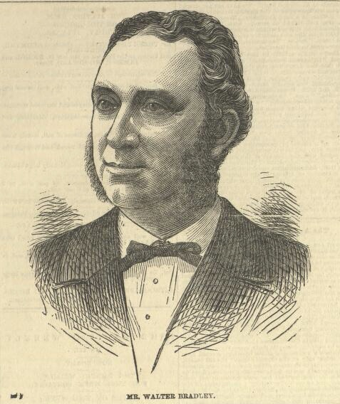 Engraving of Australian politician Walter Bradley from The Bulletin 3 (27) 31 July 1880, p.9